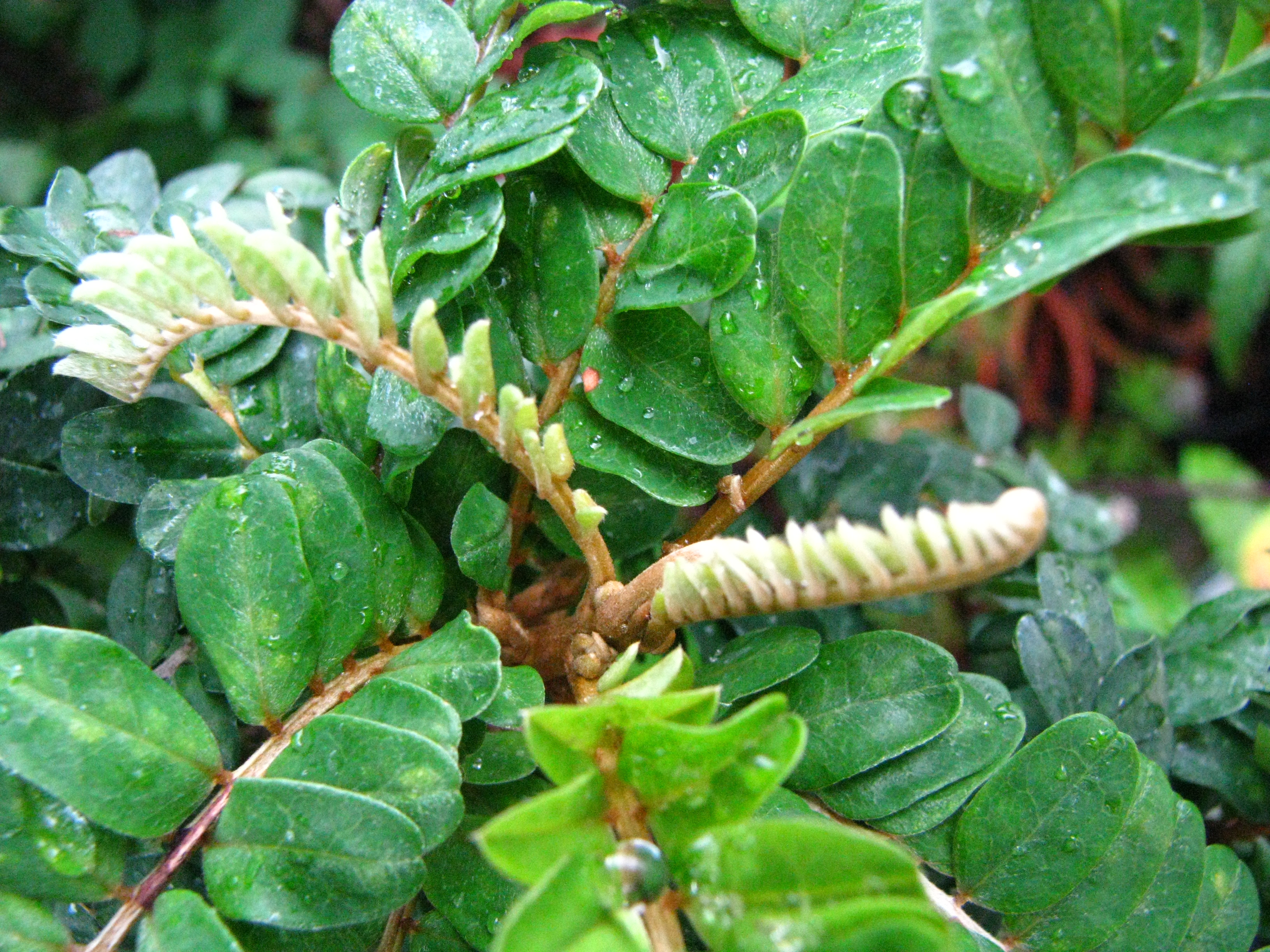 Toromiro Fabaceae Endemic to Rapa Nui (Easter Island, Isla de Pascua) Endangered Oʻahu (Cultivated)